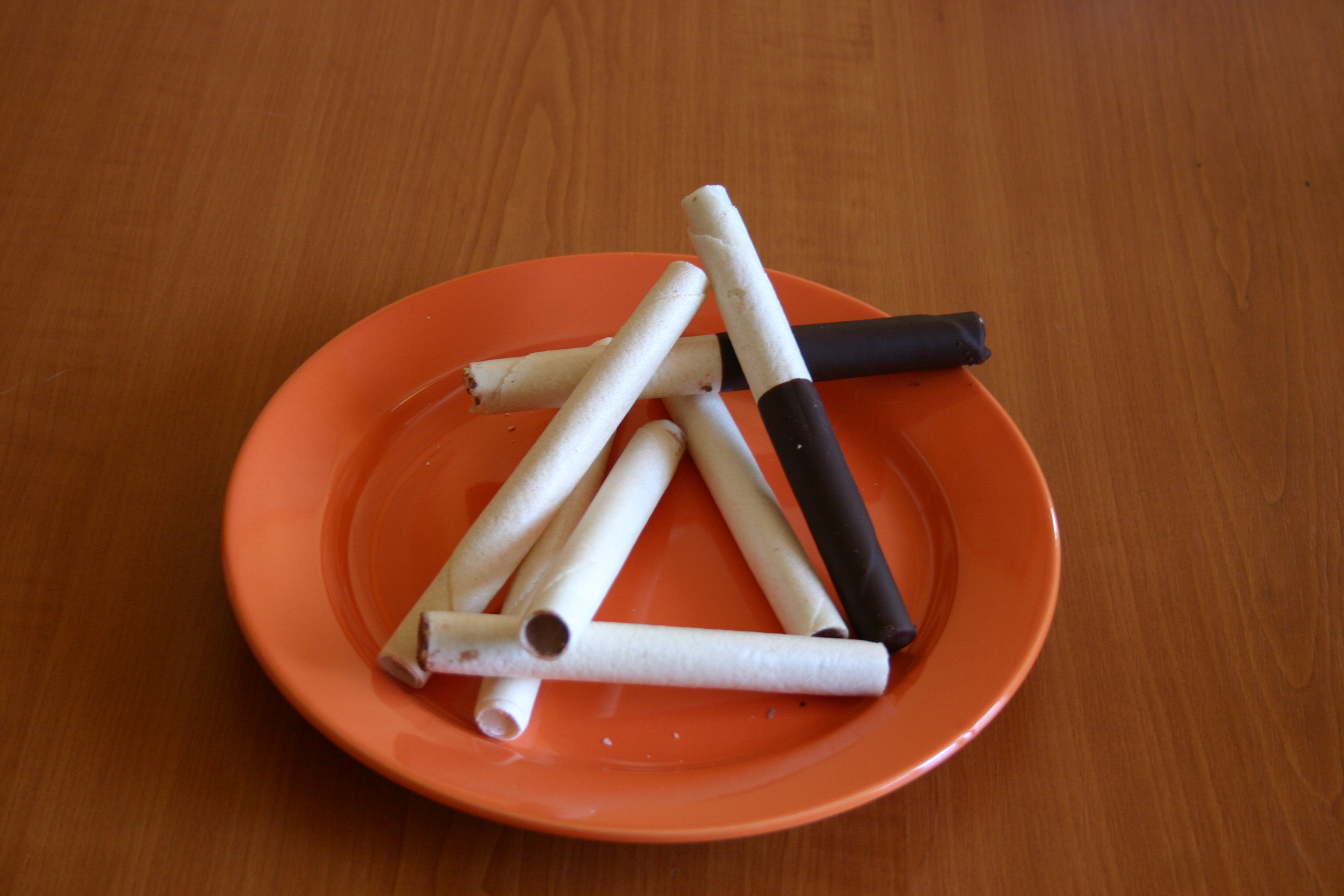 rolled wafers